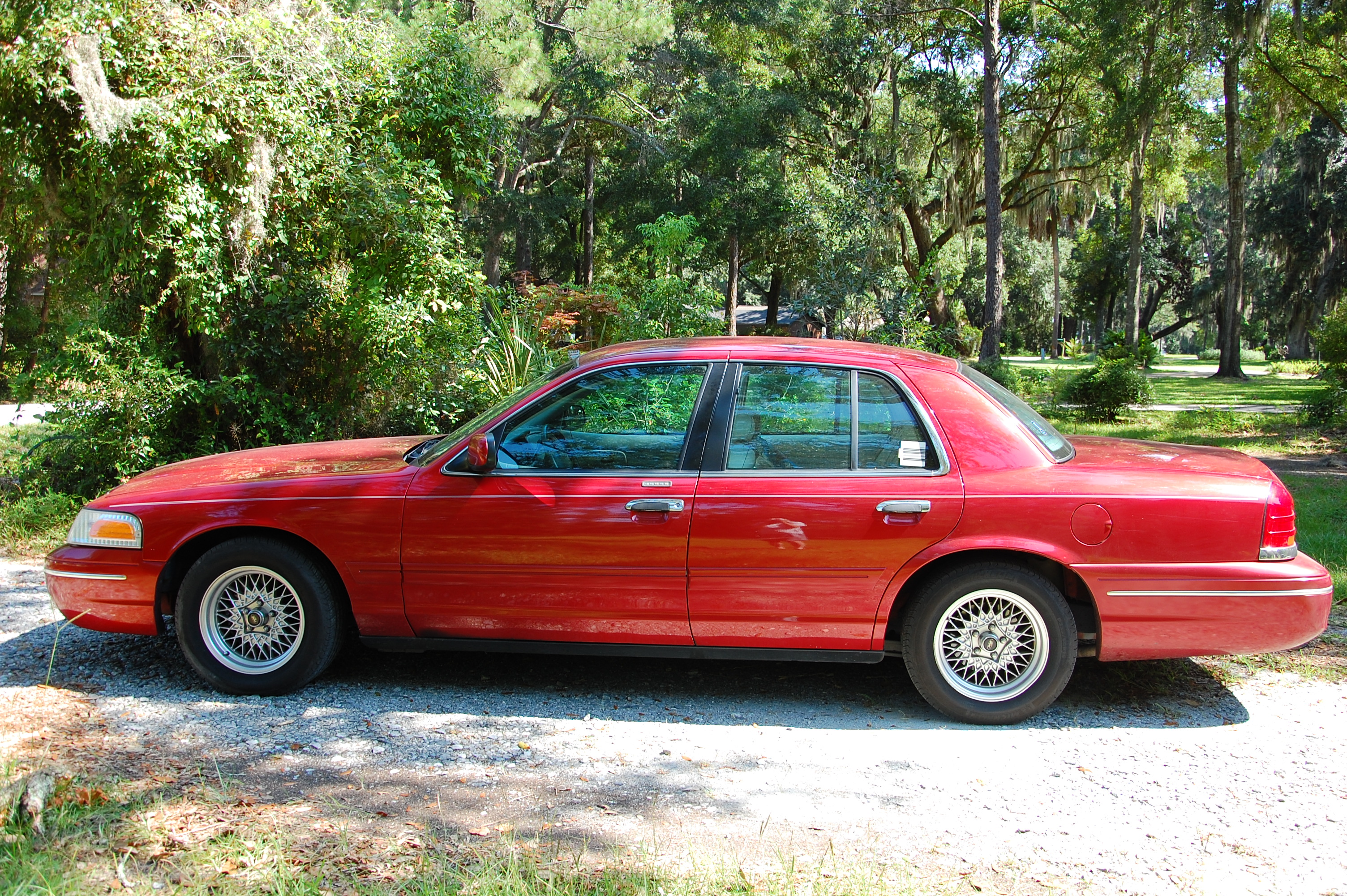 my 1999 Ford Crown Victoria